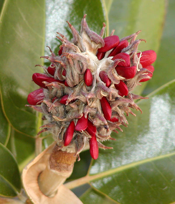 Photo of Magnolia grandiflora seeds, taken October 2004 by Stan Shebs